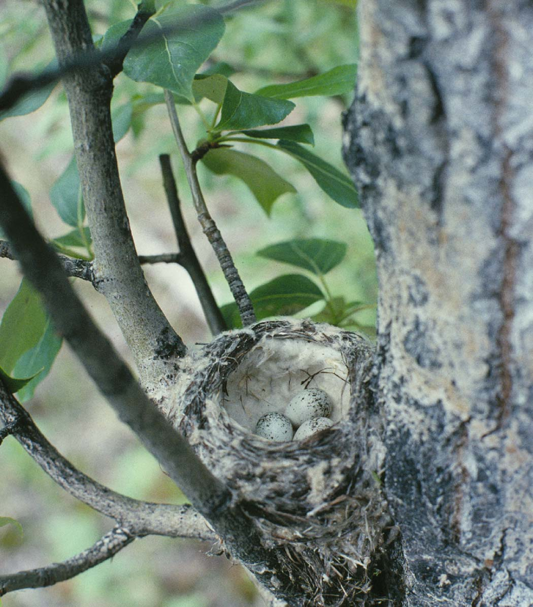 Yellow Warbler Dendroica aestiva (syn. D. petechia aestiva) nest with eggs. Location: Yukon Flats National Wildlife Reserve